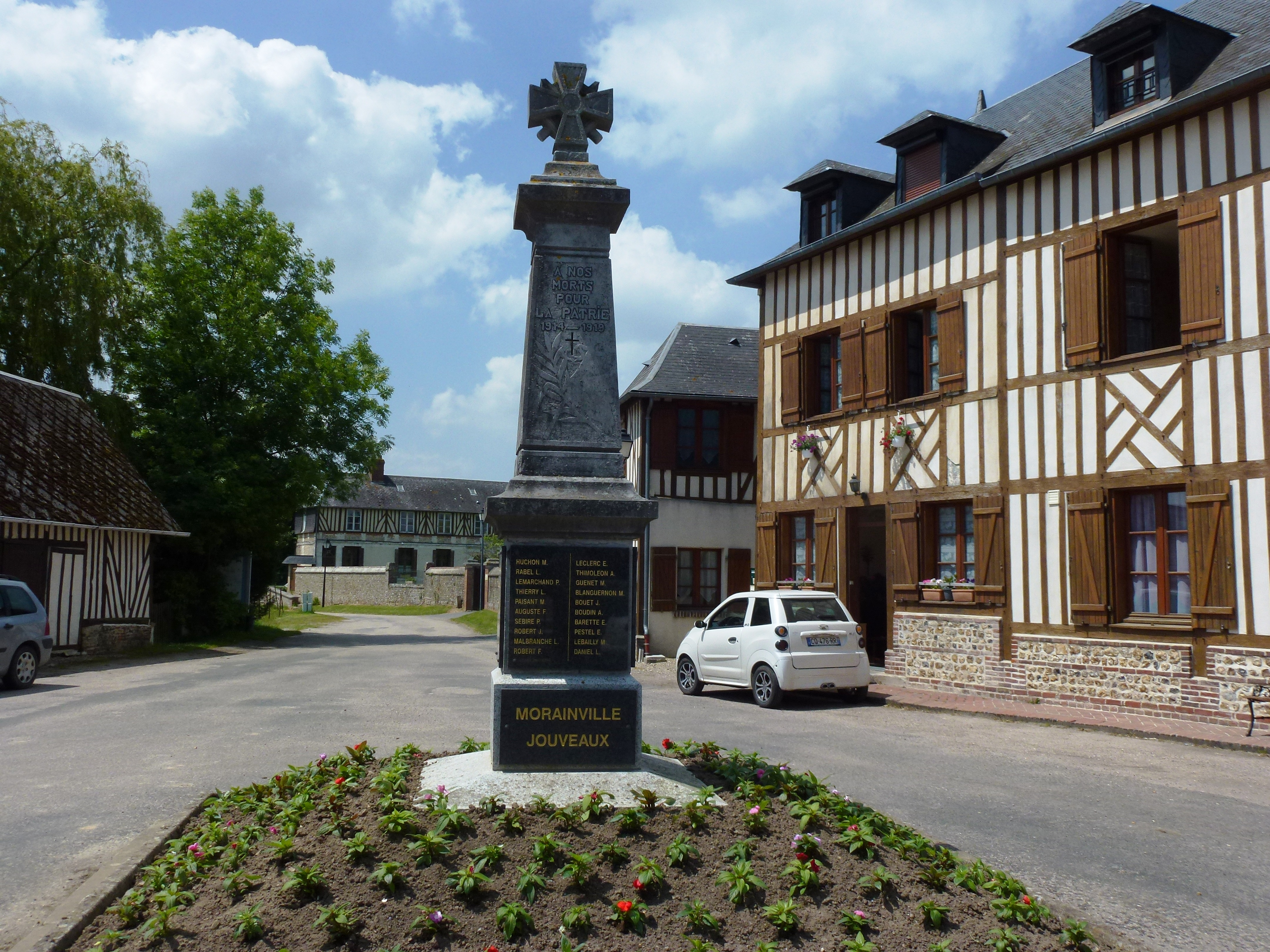 Morainville-Jouveaux (Eure, Fr) monument aux morts, Morainville